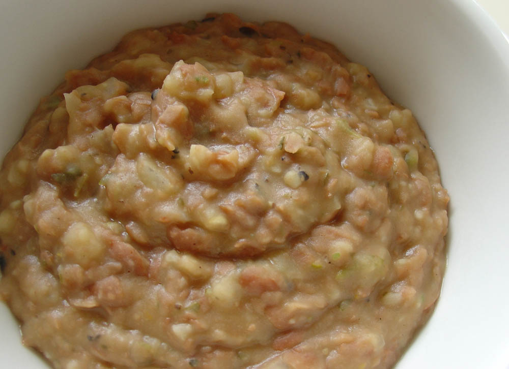 Refried beans.